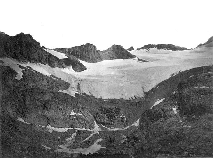 Yosemite National Park, California. Lyell Glacier. 1883. Plate 28, U.S. Geological Survey Annual Report 5 (1883-1884). 1885.